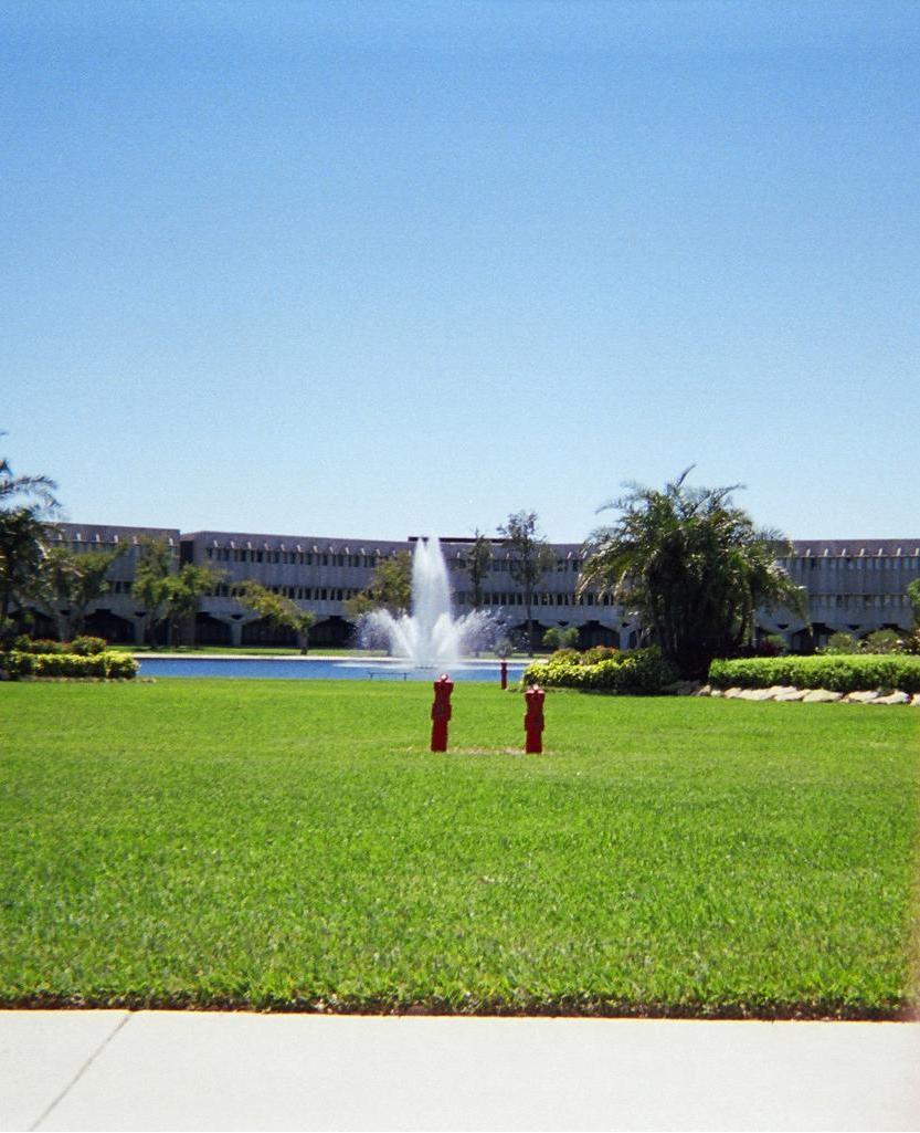 T-REX Corporate Center was originally one of IBM's research labs where the IBM PC was created. Applied Card Systems, the in-house collection for Cross Country Bank, is located here among many other businesses.